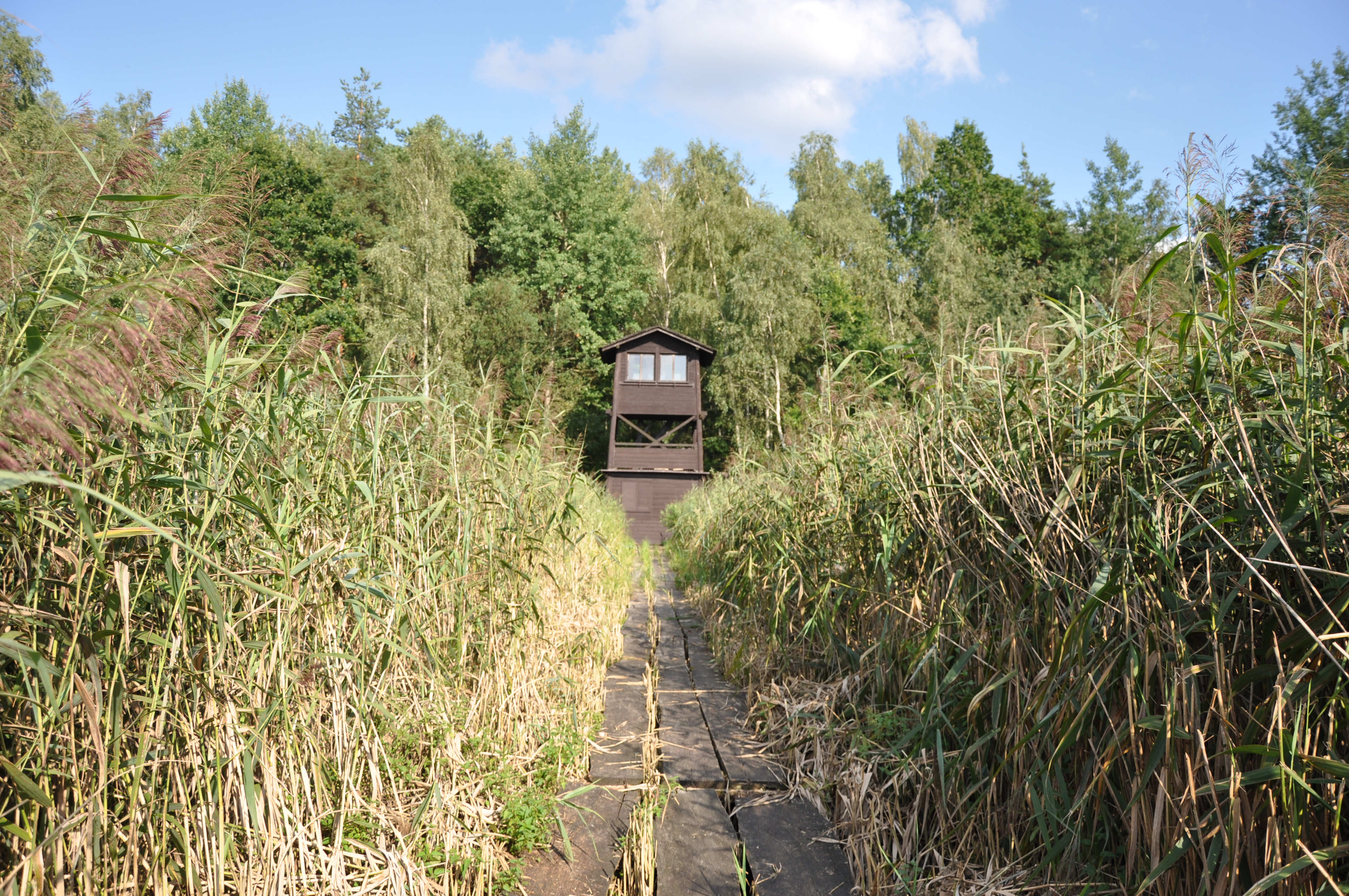 National natural reservation Řežabinec a Řežabinecké tůně, Písek district, Czech Republic.